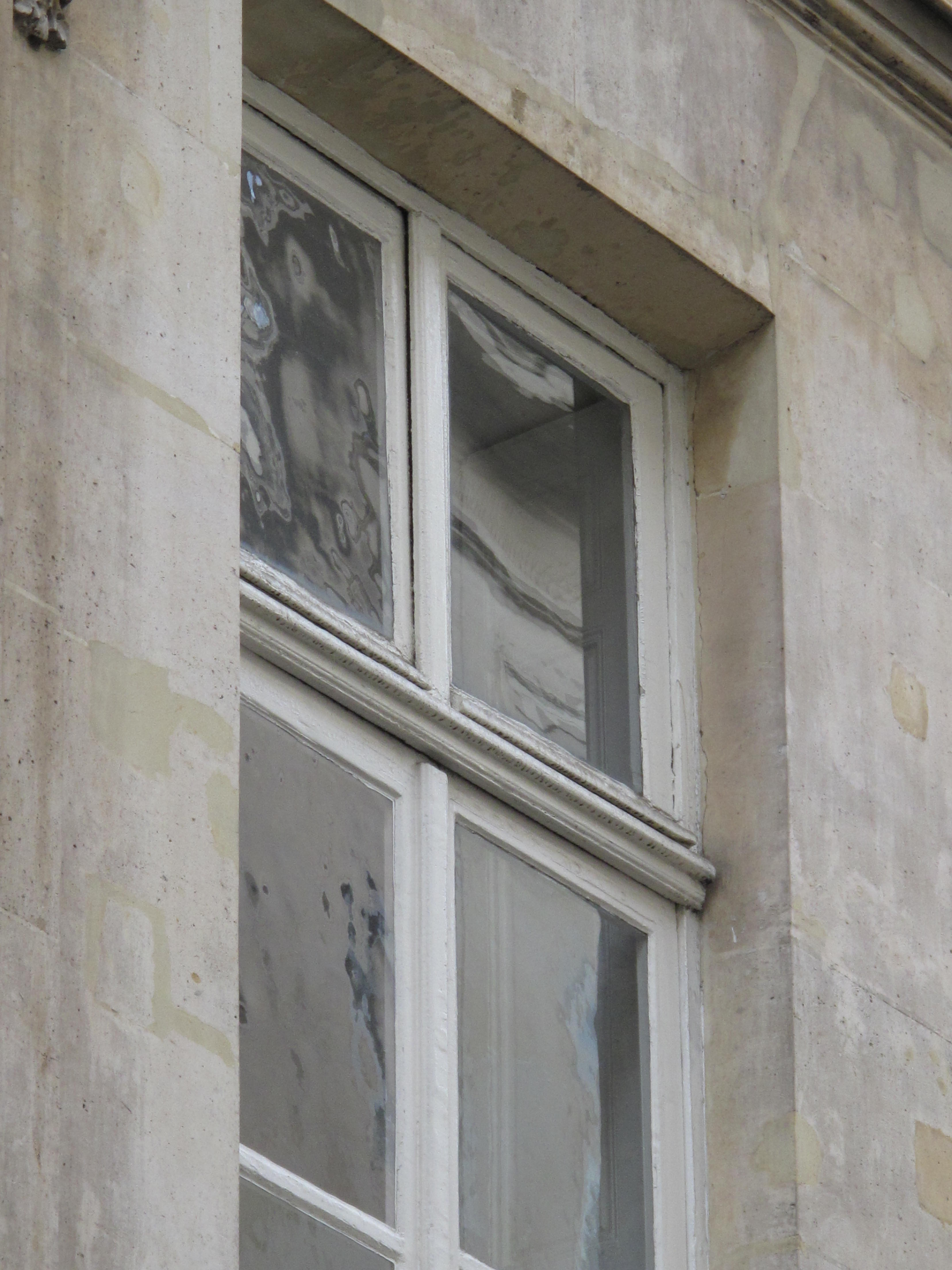 Example of window with panes of different ages. The flat panes are recent ones, the slight undulated panes are older (XIX century ?). 10 rue des Moulins, Paris 1er arr.